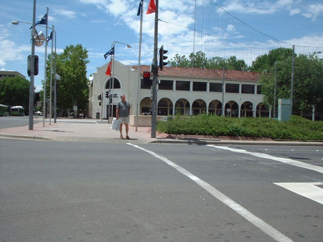 A pedestrian at the intersection of Alinga Street and Northbourne Avenue, Canberra, Australia.